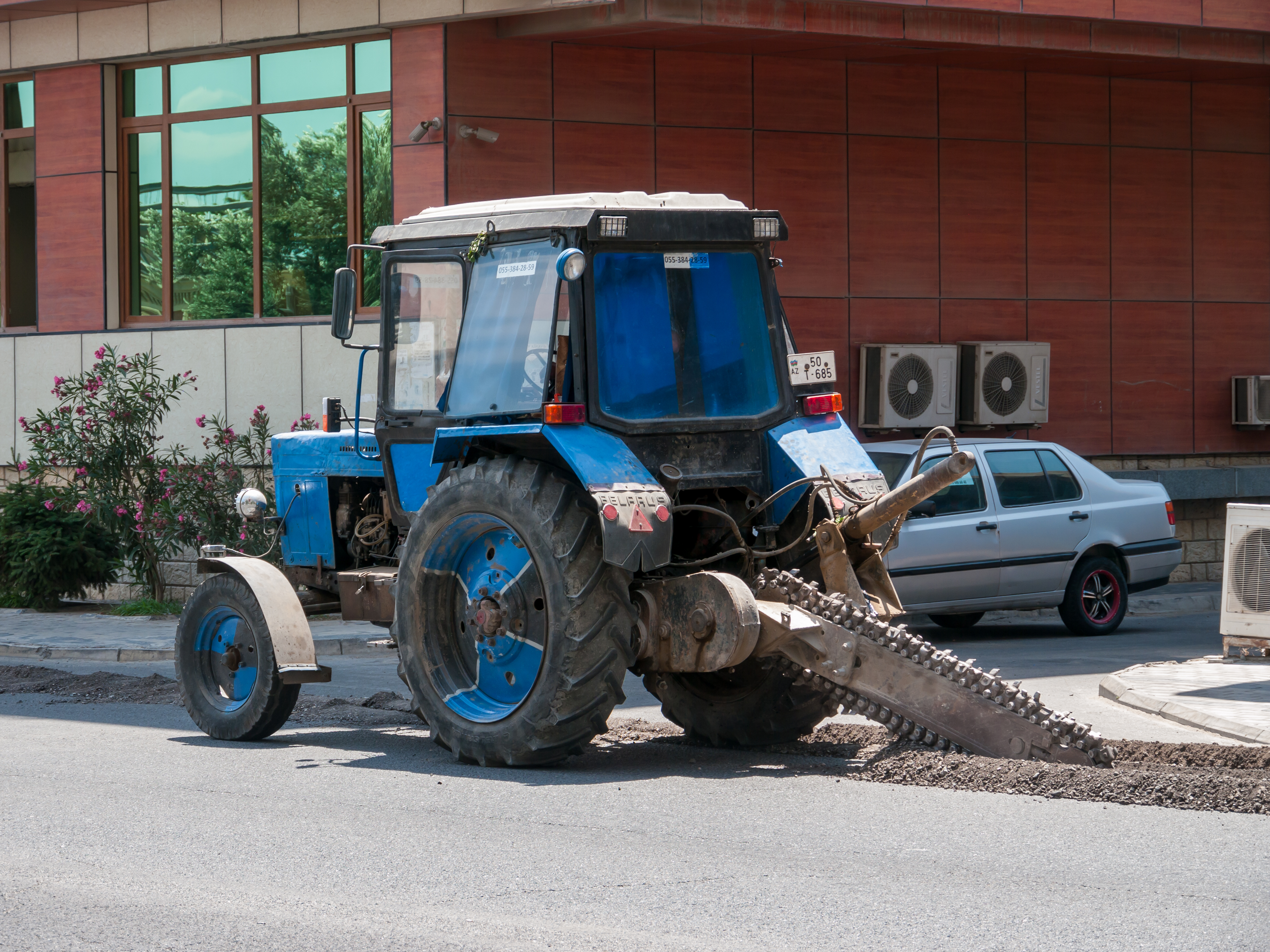 Roadworks in Baku